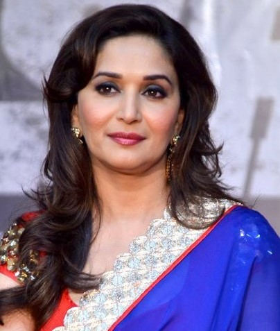 Madhuri Dixit at the audio release of Dedh Ishqiya